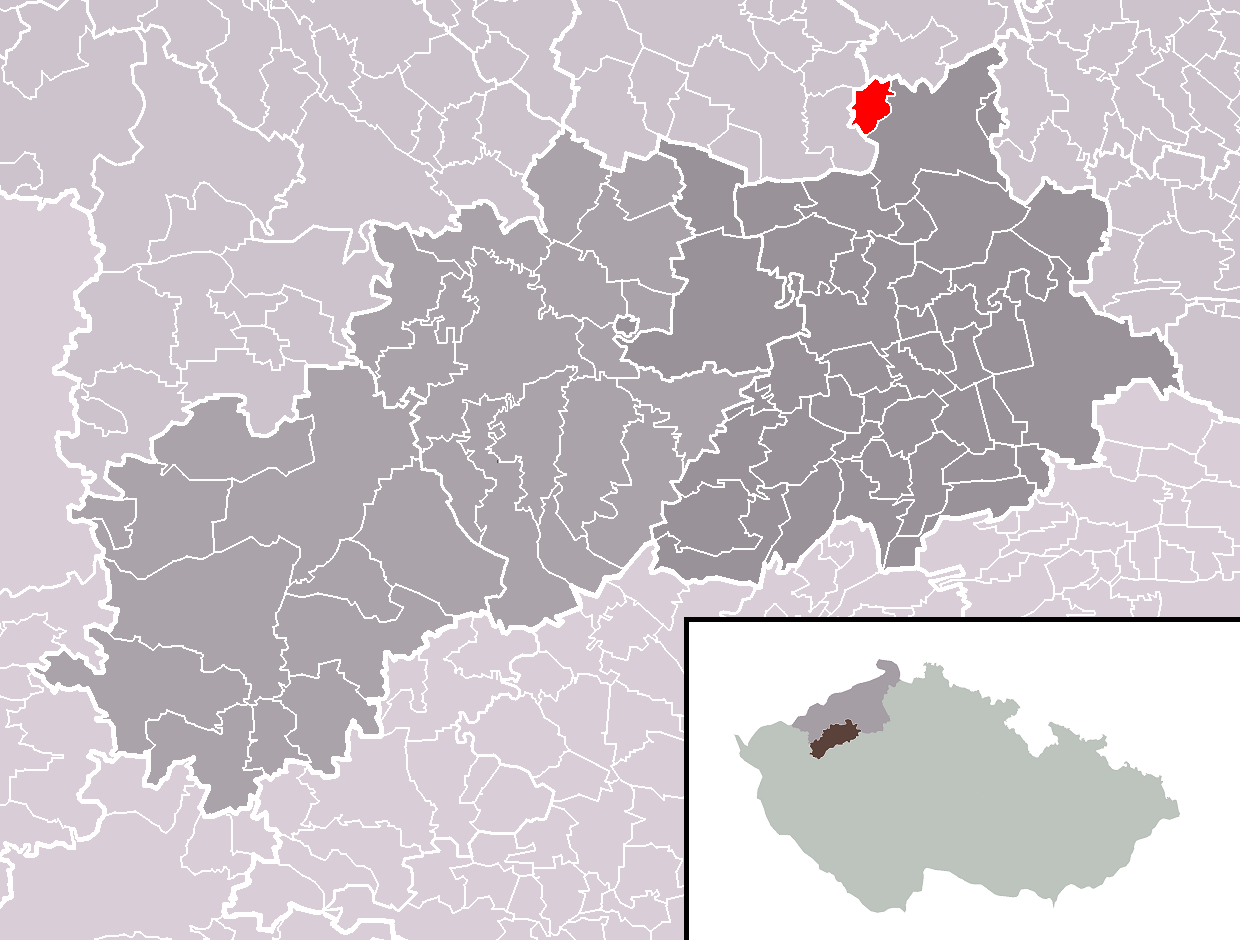 Location of Kozly municipality within Louny District and administrative area of Louny as a Municipality with Extended Competence.